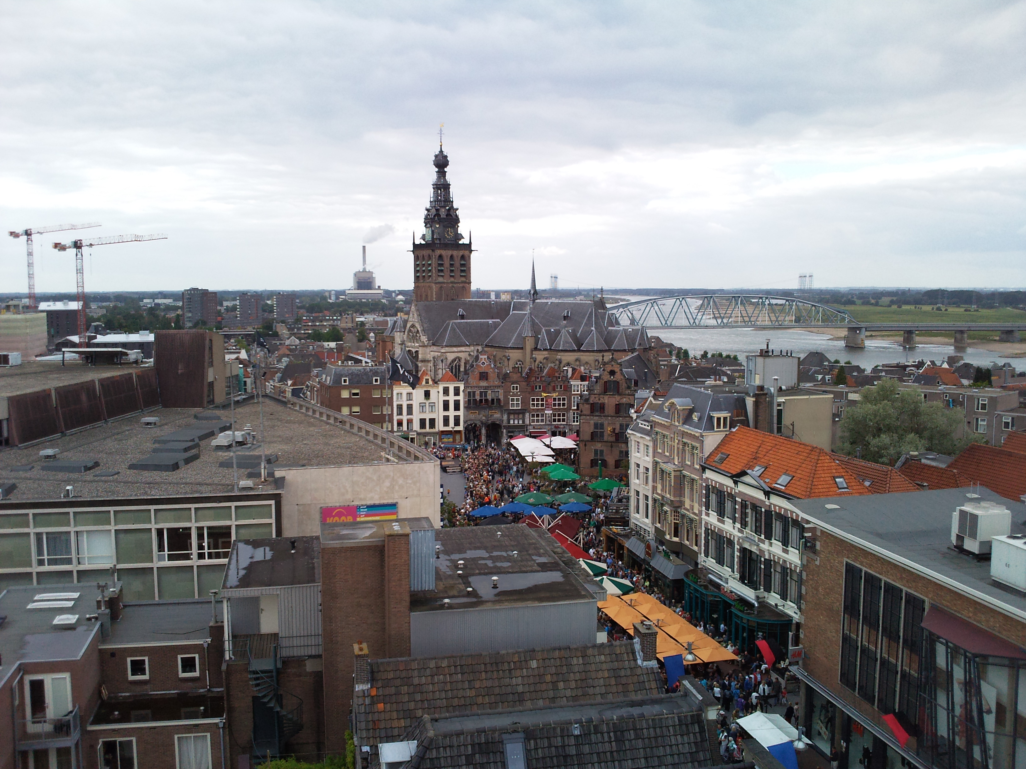 View of the city hall tower, Nijmegen, NL, on Sint Steven Church